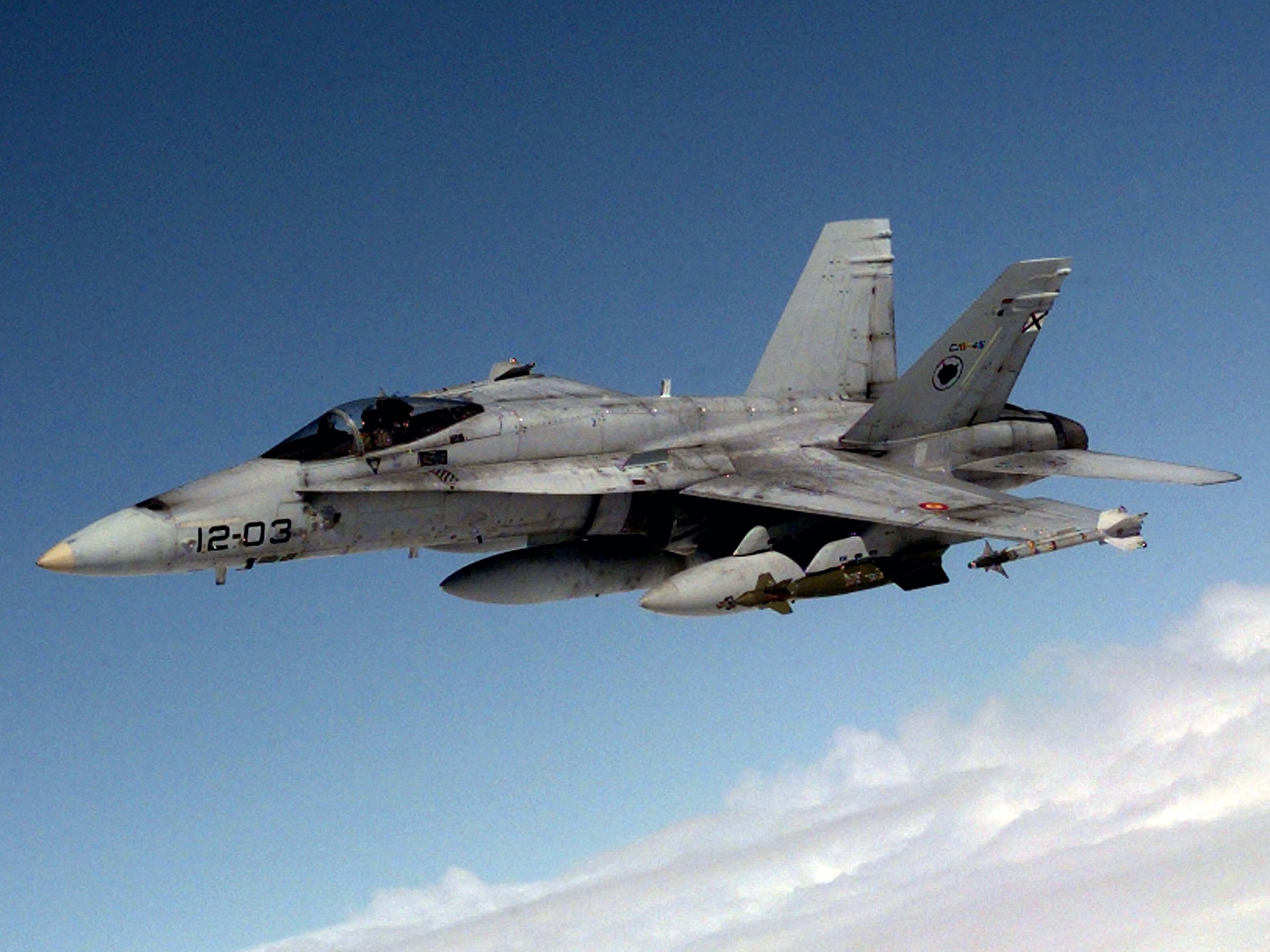 A Spanish Air Force EF-18A Hornet moves into position behind an Air Combat Command KC-135R Stratotanker (not shown) of the 22nd Air Refueling Squadron during a NATO Operation Allied Force Combat Mission. The versatility of the KC-135 Stratotanker is clearly demonstrated by its ability to adapt quickly to each mission. This mission required that the tanker attach a refueling drogue (not shown) to the end of its refueling boom (not shown) so that NATO aircraft fitted with a refueling probe could refuel. The EF-18A Hornets carries AIM-9 Sidewinder missiles on the wingtip rails, MK 82 500 pound Laser Guided Bombs in the middle of the wings and 350 gallon underwing drop tanks to extend mission range. The KC-135R is assigned to the 366th Air Expeditionary Wing / 22nd Air Refueling Squadron and is deployed to Royal Air Force Fairford to support NATO Operation Allied Force. The EF-18A Hornet is assigned to Ala 12, or 12 Squadron, at Torrejon Air Base Spain but is flying mission from its deployed base of Aviano Air Base, Italy. Location: RAF FAIRFORD, GLOUCESTERSHIRE ENGLAND / GREAT BRITAIN (ENG)